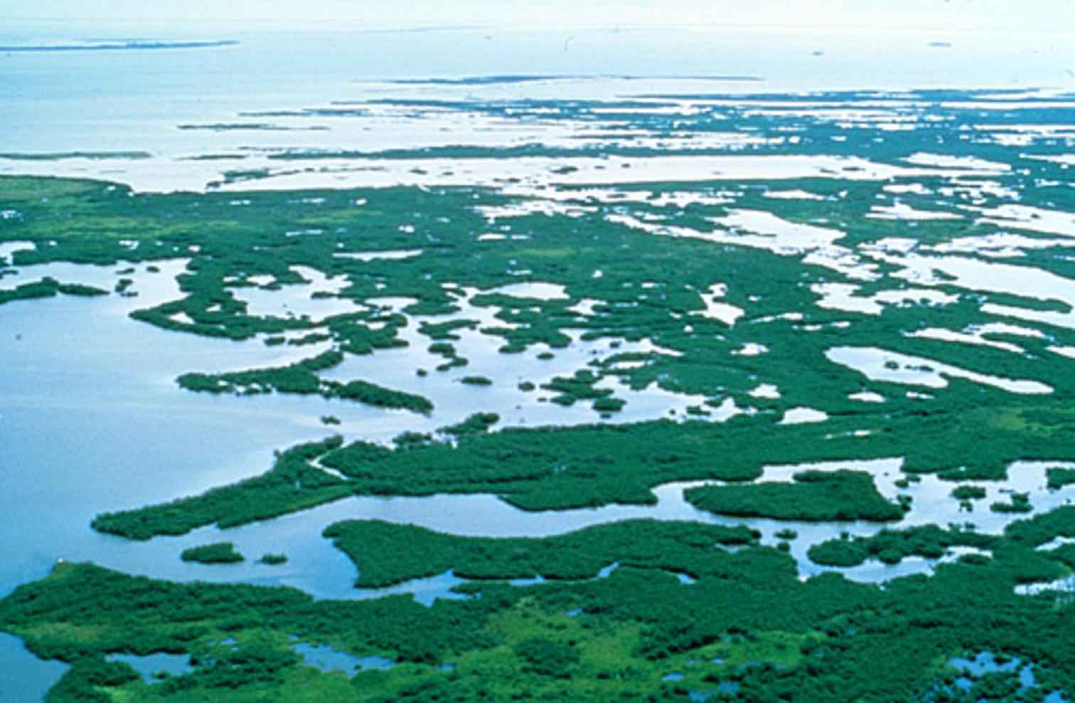 Florida mangroves ecoregion — in the coastal swamps of Florida. Aerial photograph of Florida wetlands. Credits Image from Public domain images website